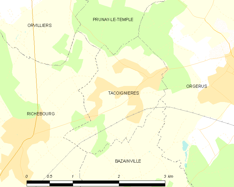 Map of French municipality Tacoignières